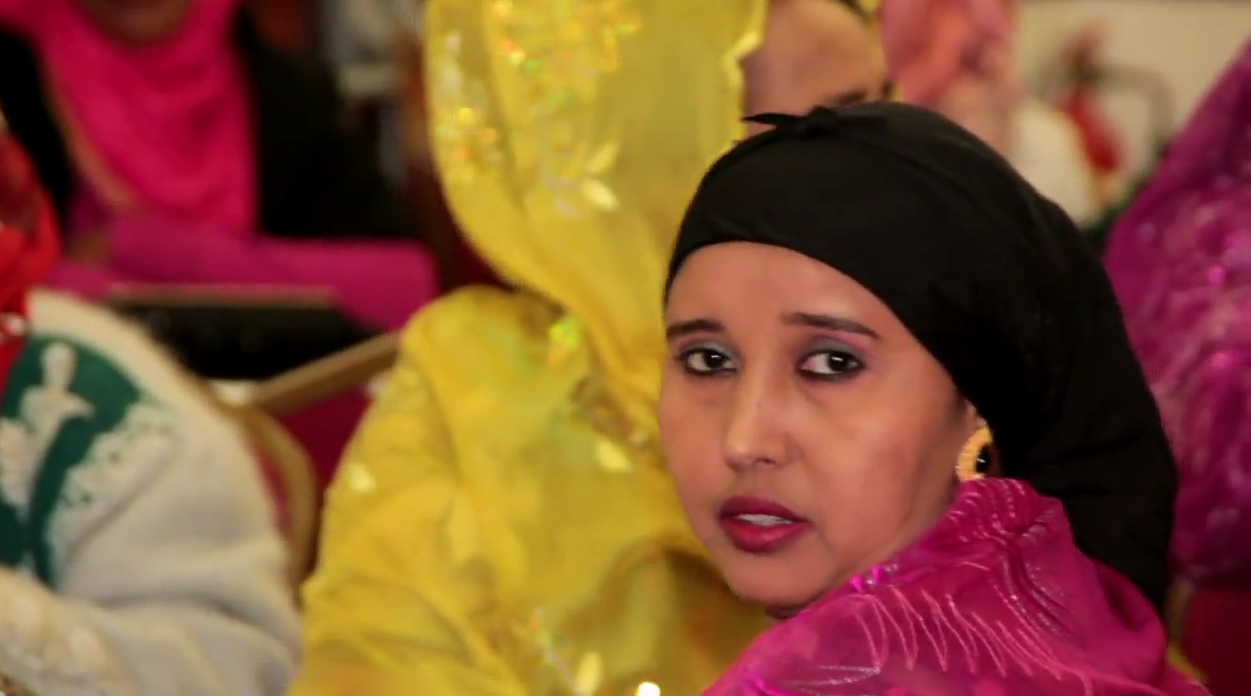 Somali woman at a Somali community event.